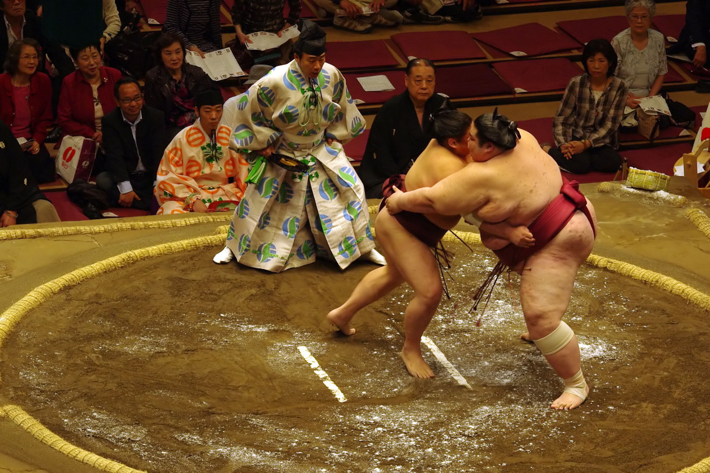 Sumo Wrestlers in Tokyo